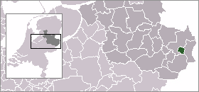 Location of Oldenzaal